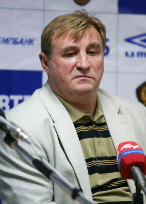 Russian coach Vladimir Kazachyonok